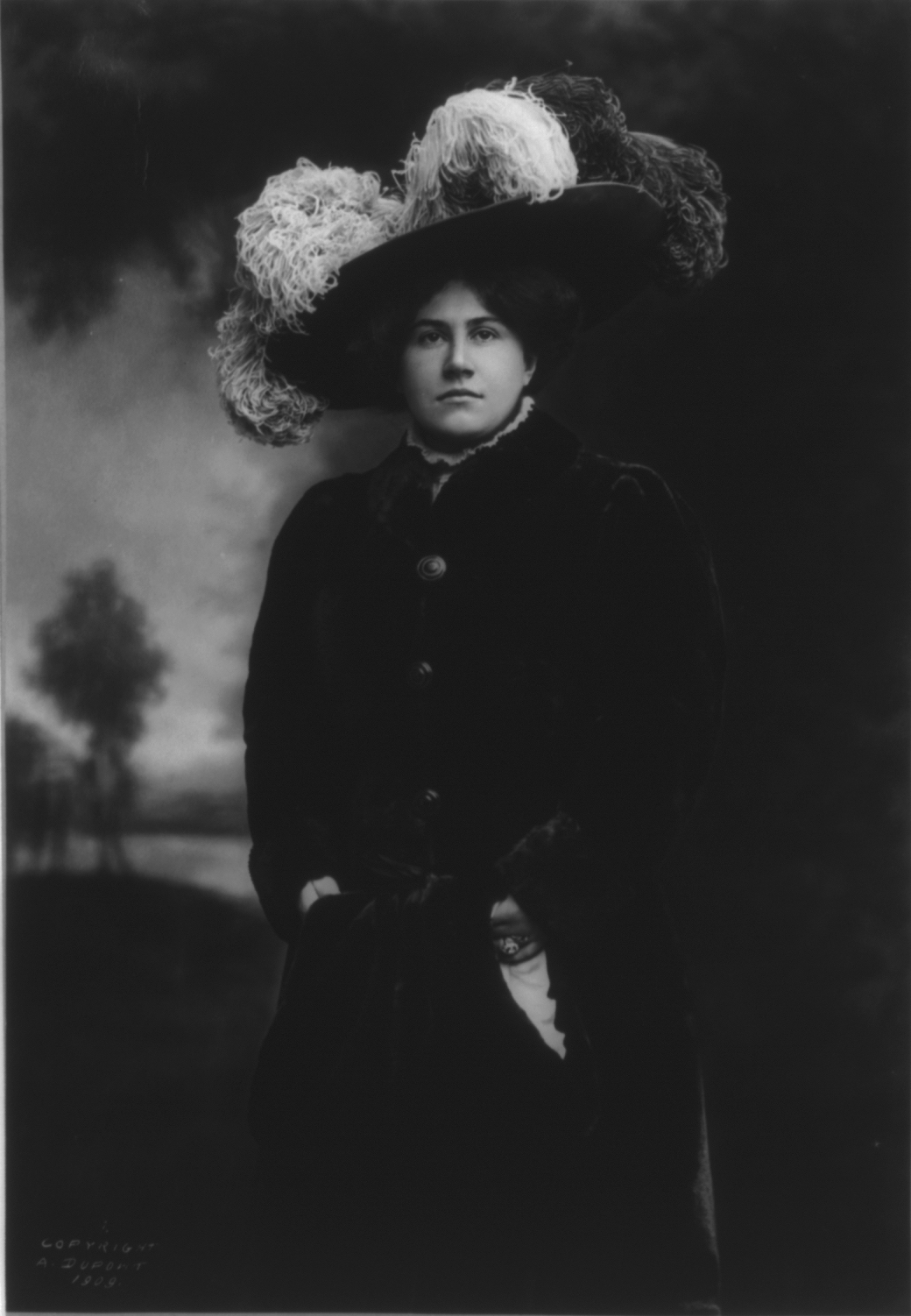 Emmy Destinn, 1878-1930, three-quarters length portrait, standing, facing left, wearing a fur coat and a hat with feathers